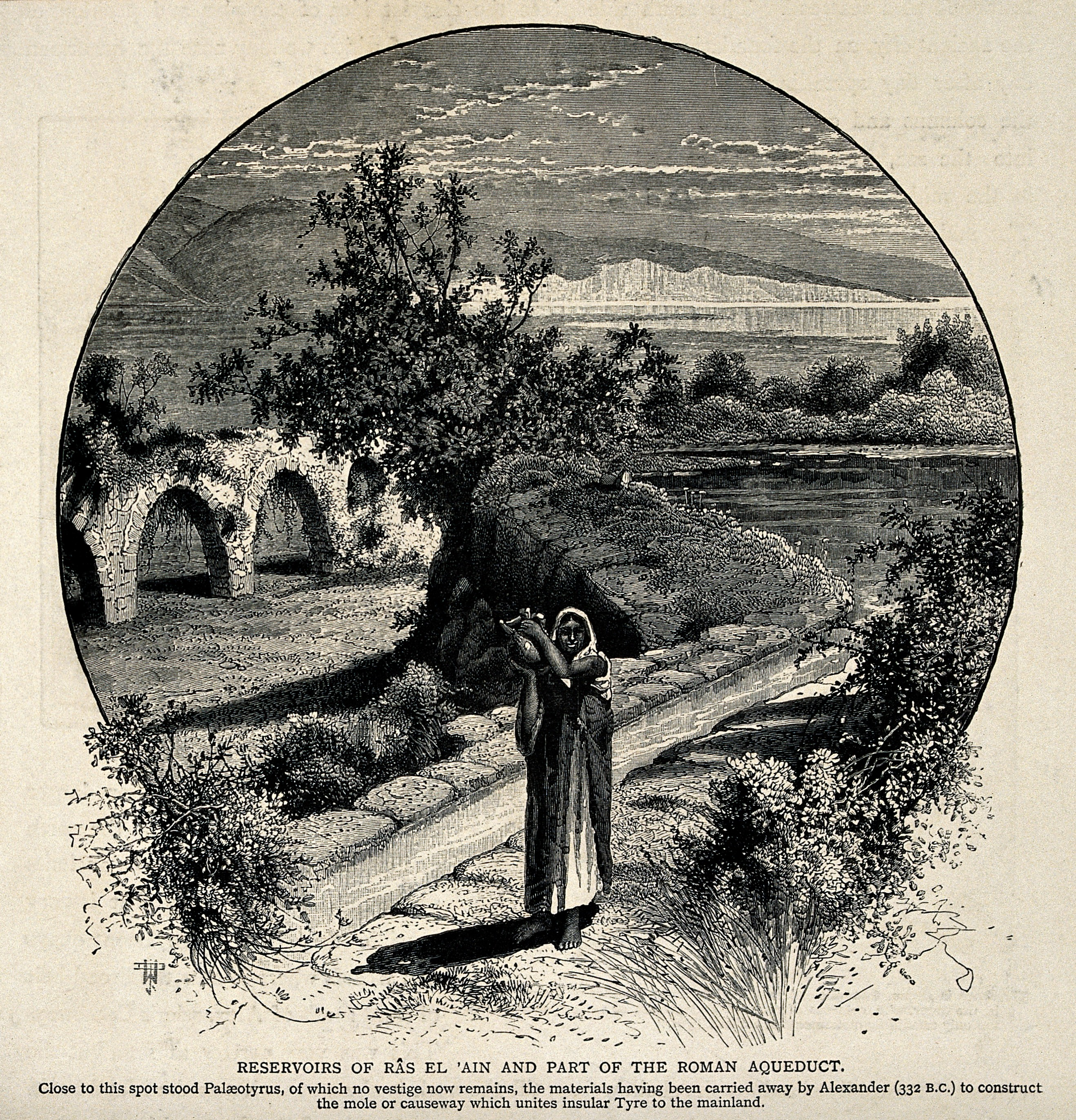 A woman standing in front of the reservoirs of Ras El 'Ain and part of a Roman aqueduct. Wood engraving. Iconographic Collections